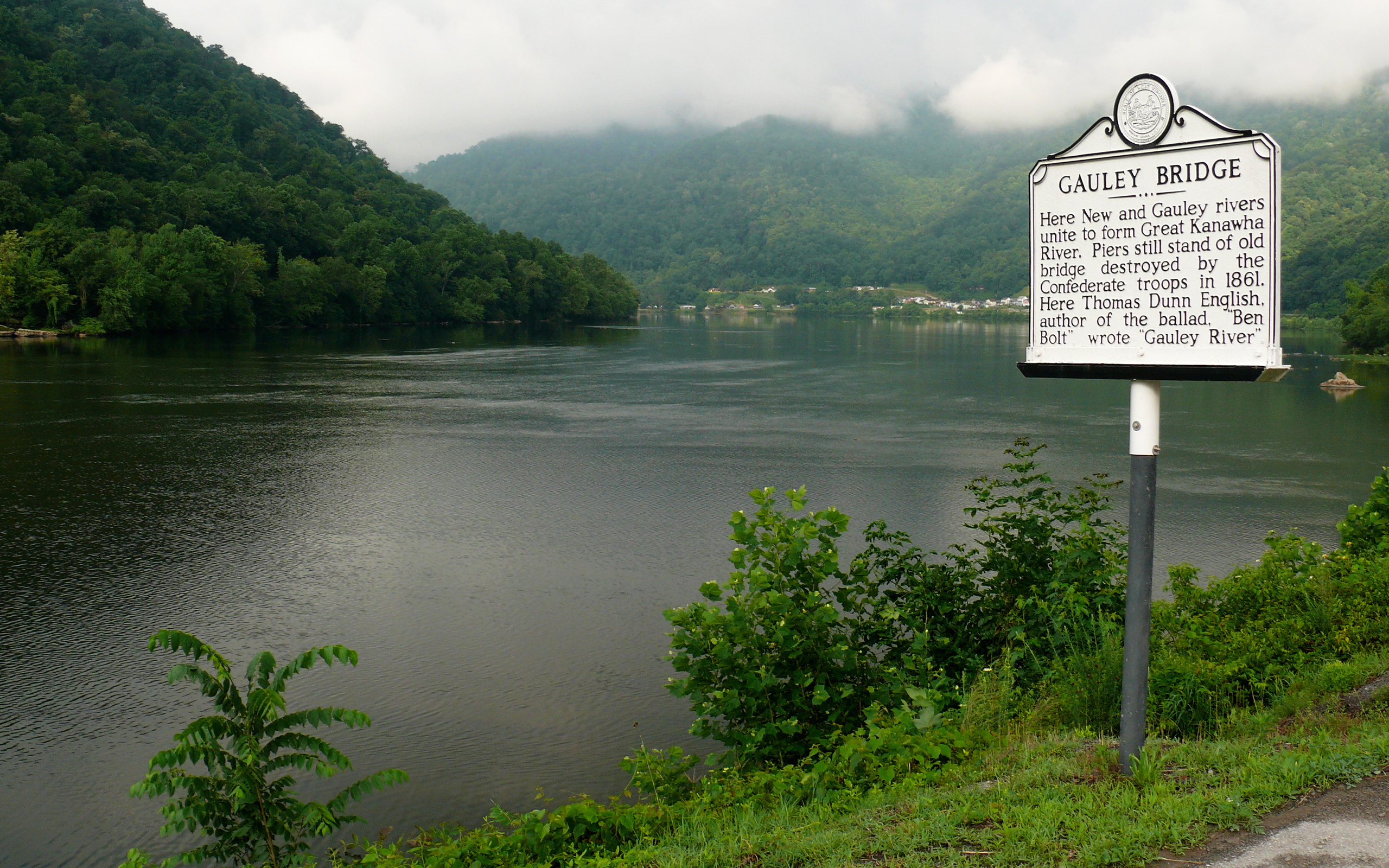 The confluence of the New River and the Gauley River, forming the Kanawha River at the town of Gauley Bridge. In the photo, the Gauley River flows in from the right (north), the New River flows in from the left (southwest), and the Kanawha River flows directly away (west) from the camera. Photo taken with a Panasonic Lumix DMC-FZ50 in Fayette County, WV, USA.